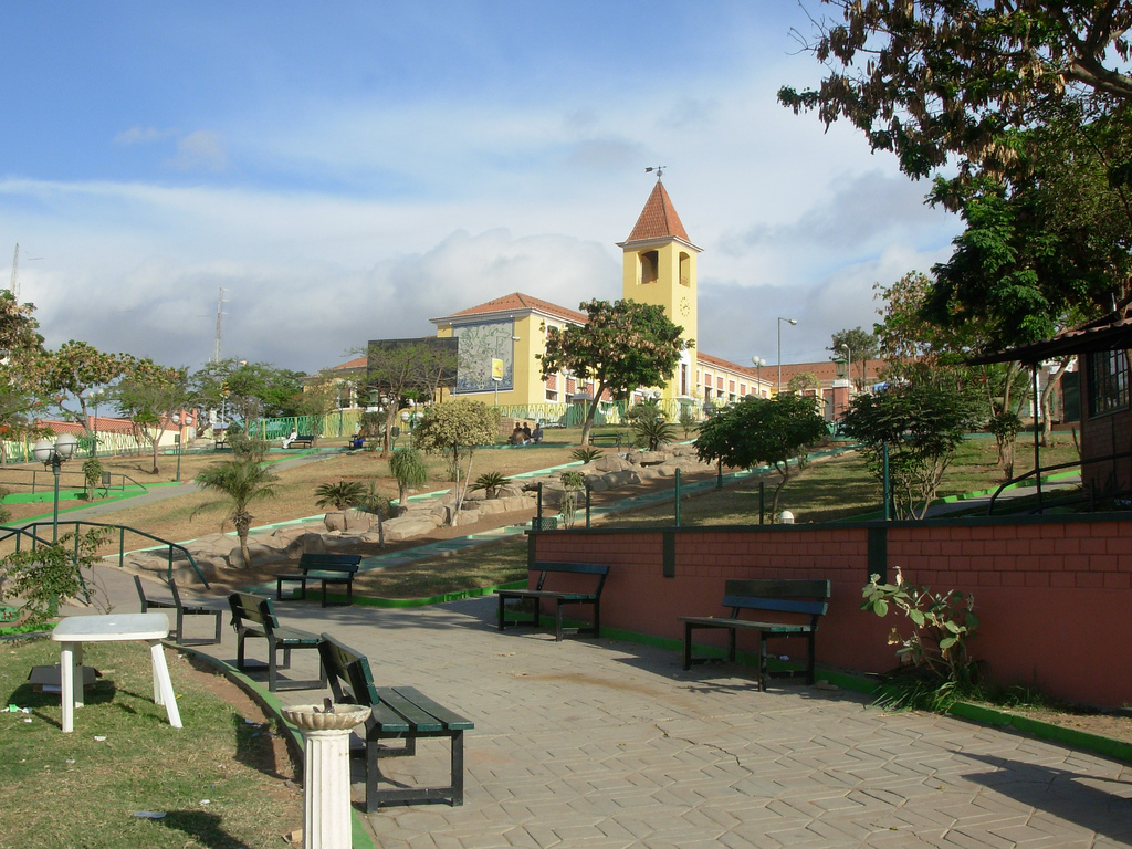 Lyceum Salvador Correia in Luanda, Angola.